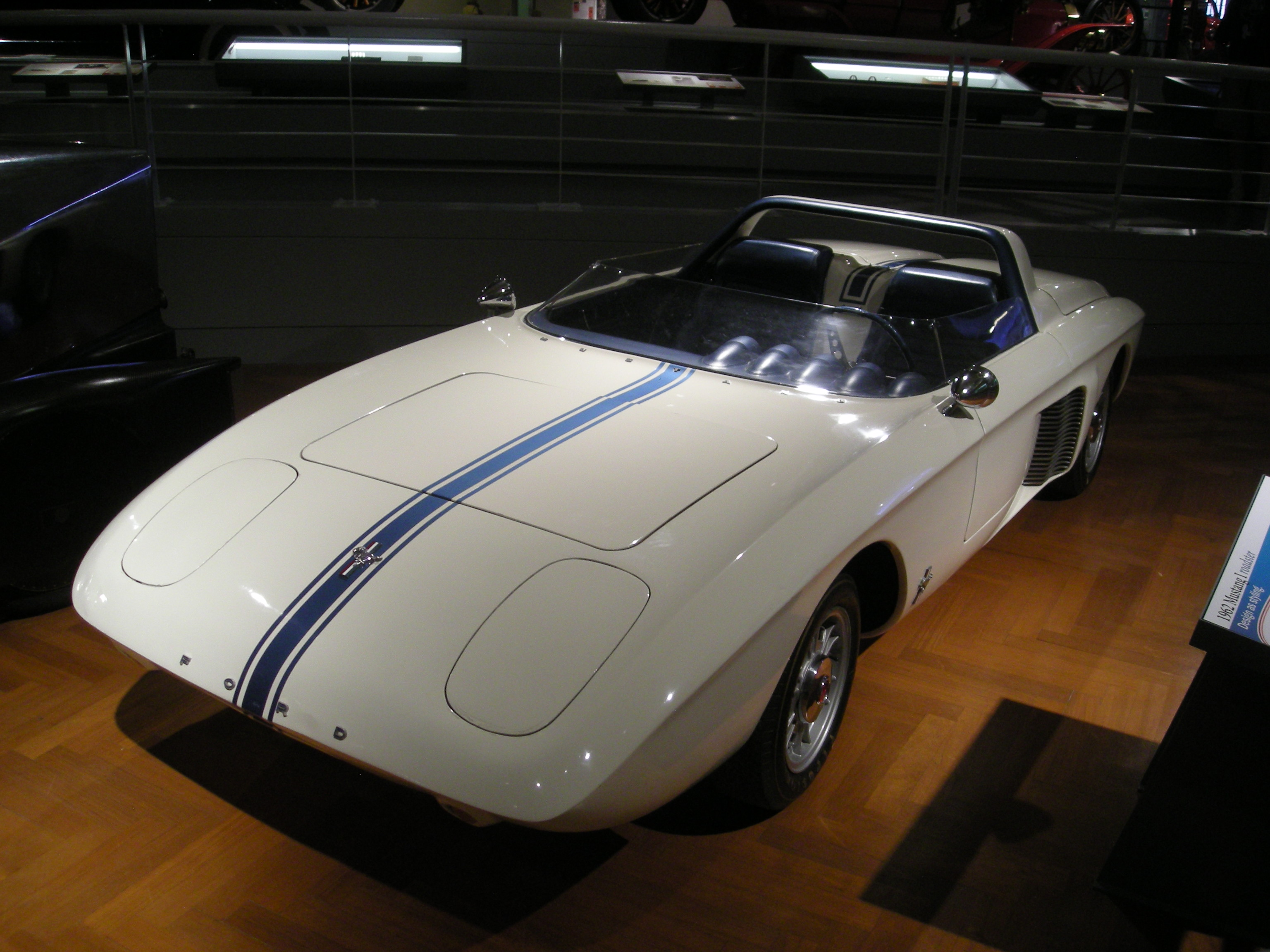 The 1962 Mustang I roadster on display at the Henry Ford Museum in Dearborn, Michigan (United States).